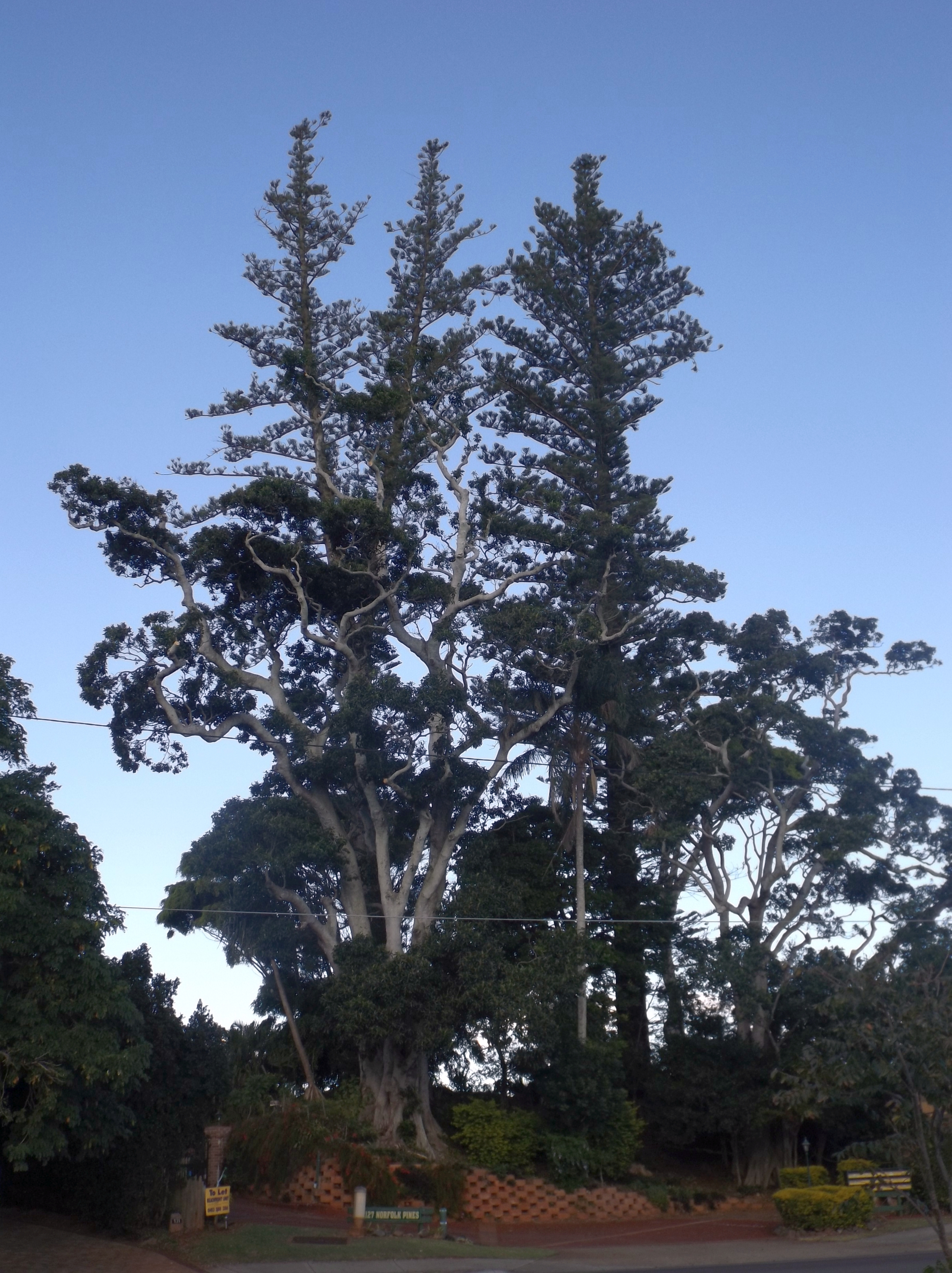 Photo of Norfolk Island Pine Trees at Cleveland, City of Redlands, Queensland, Australia.